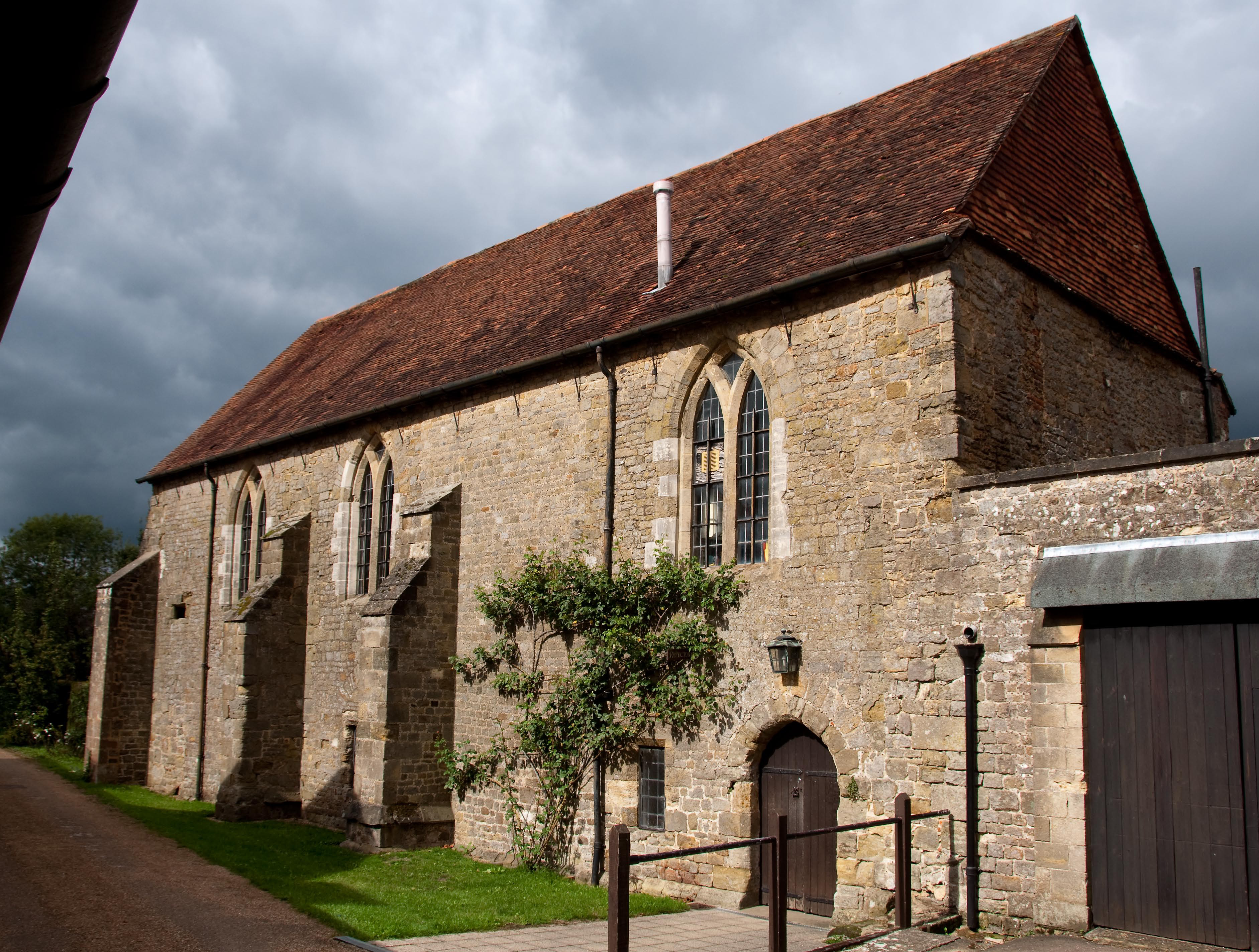 The Refectory seen from the Southeast